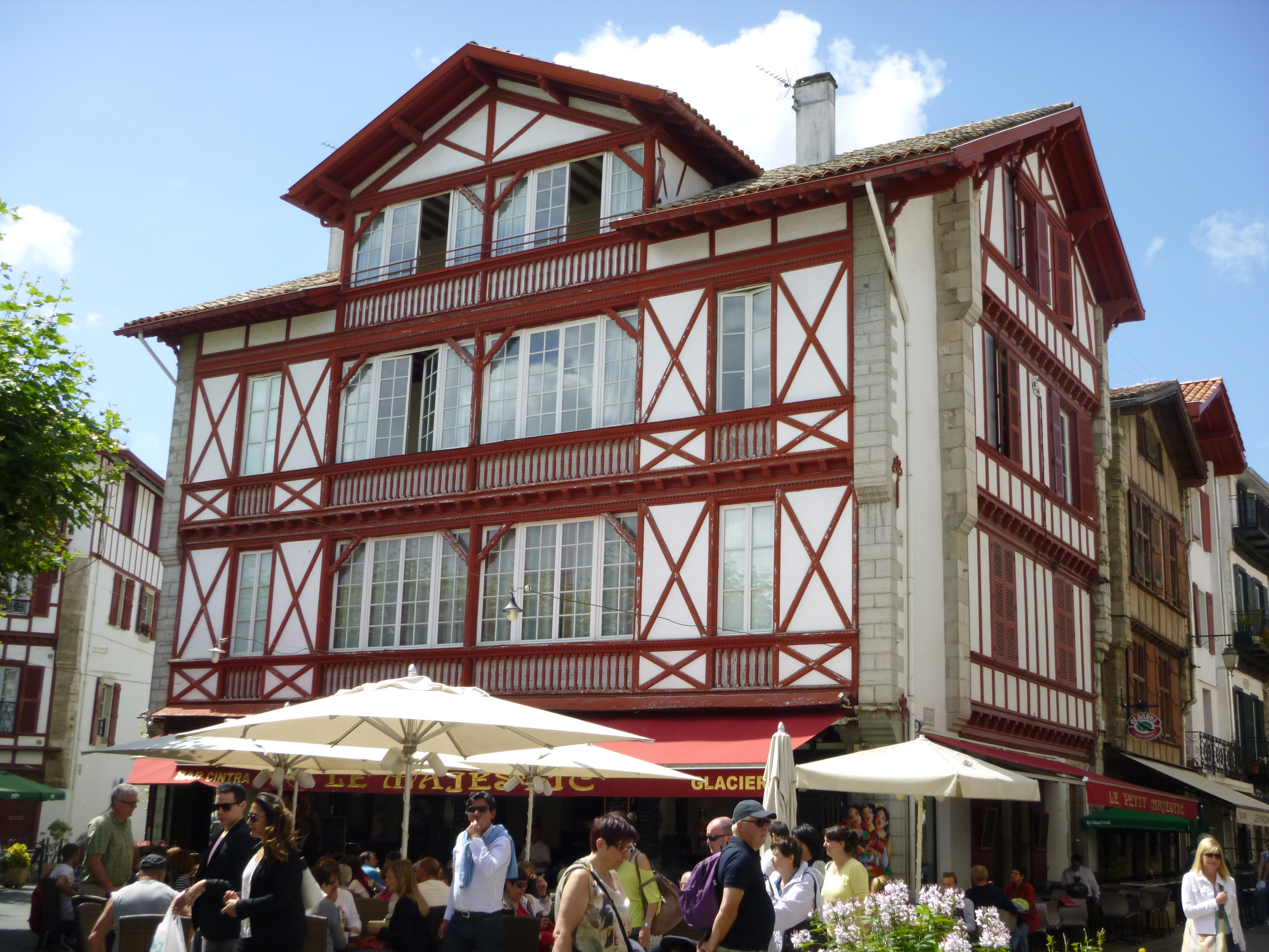 Building in St-Jean-de-Luz, place Louis-XIV.